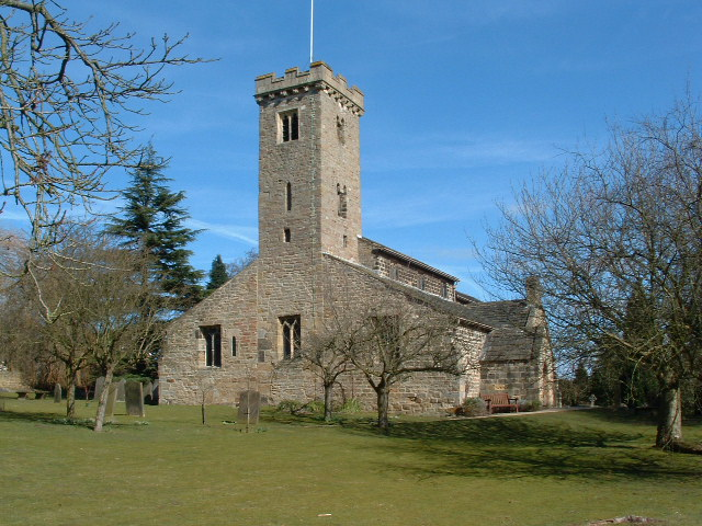 All Hallows parish church, Bardsey, West Yorkshire, seen from the southwest.Most of the tower is Saxon: the lower stages 9th or 10th century and the upper stage later 10th century. The embattled parapet was added early in the 20th century.